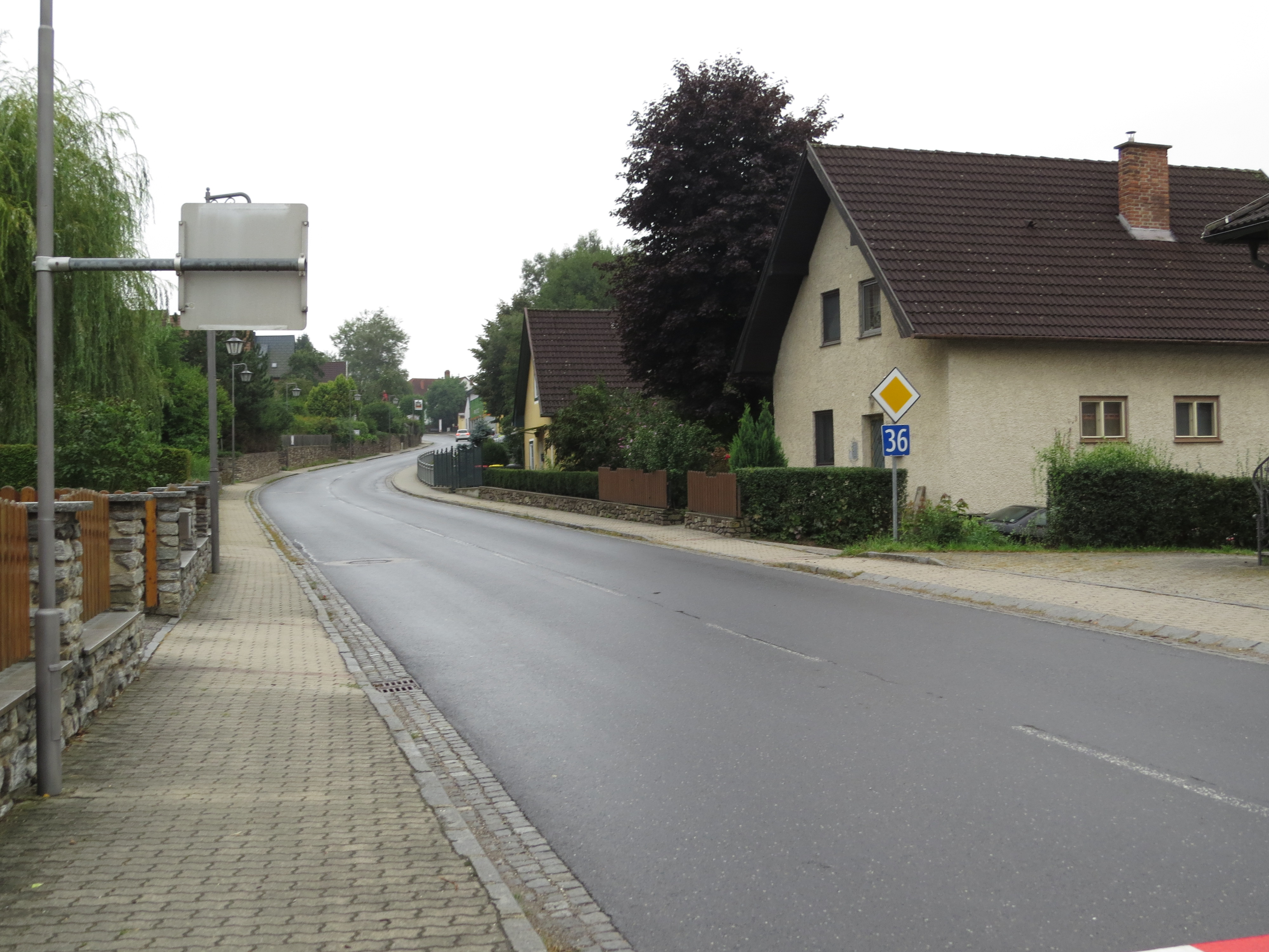 B 36 Zwettler Straße in Altenmarkt, Yspertal, Niederösterreich, Österreich